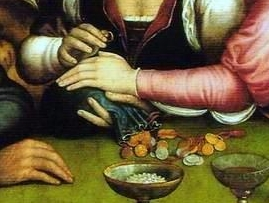 Detail of Image:Quentin Metsys - O Casamento Desigual.jpg